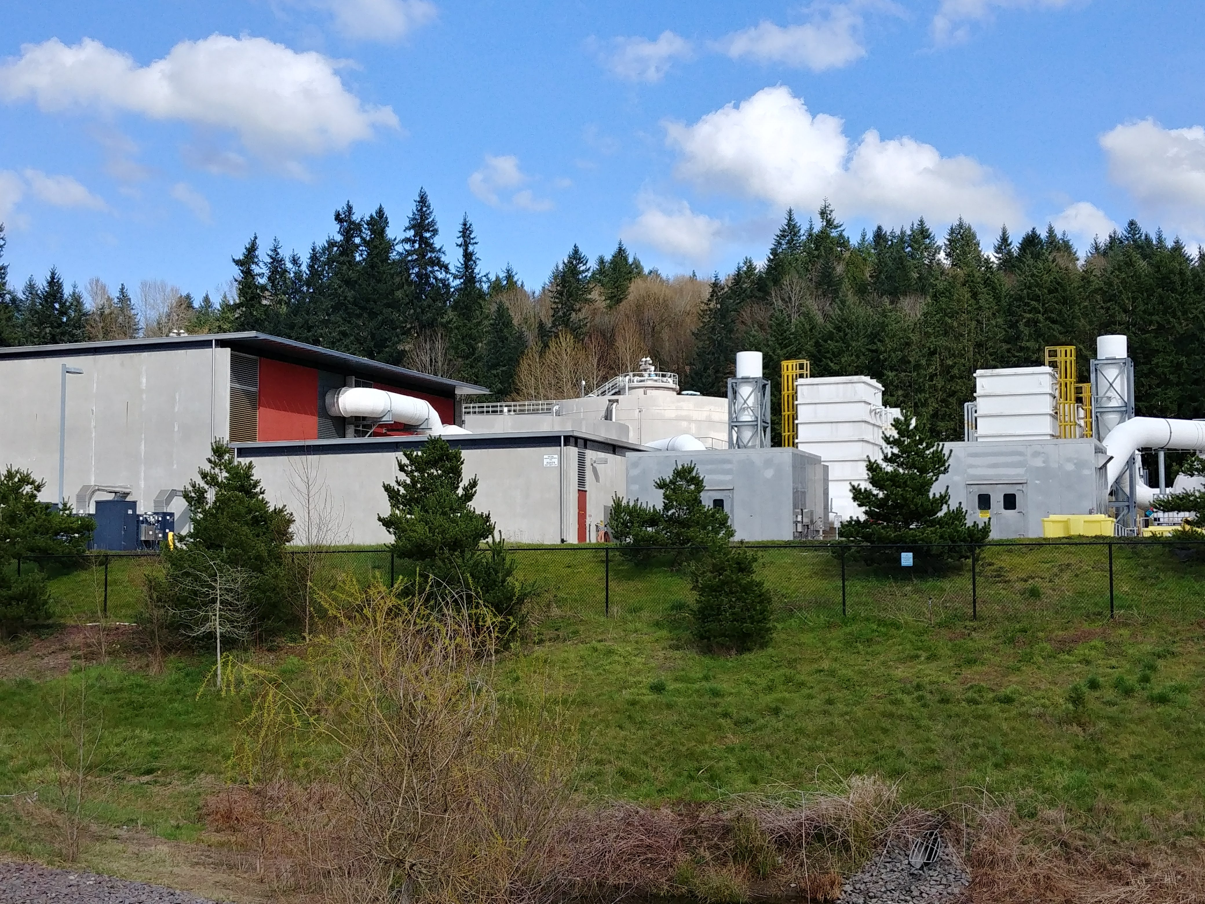 Exterior and public grounds surrounding Brightwater sewage treatment plant on State Route 9, Bothell, Washington